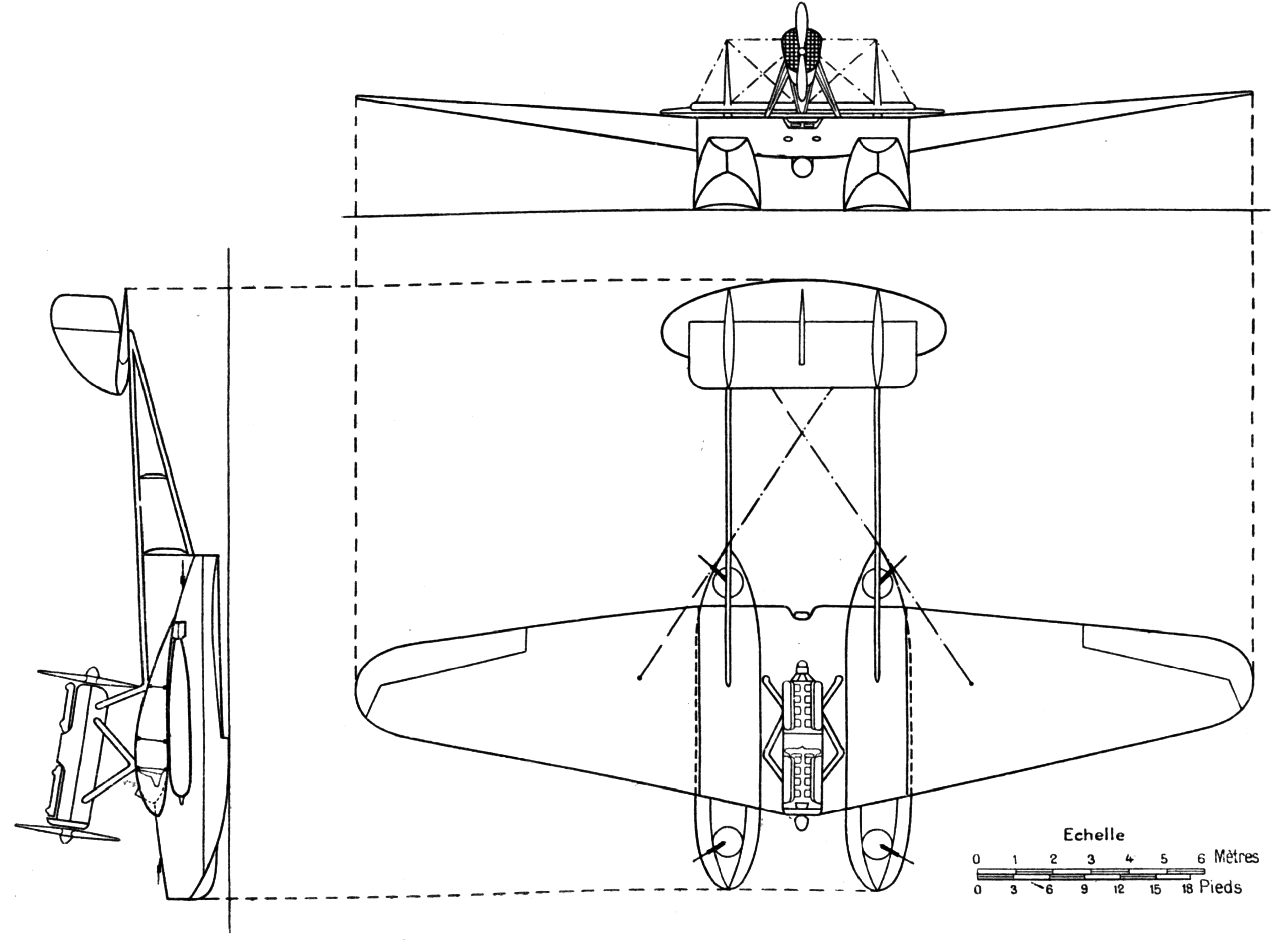 Savoia-Marchetti S.55 ter 3-view drawing from L'Aéronautique March,1927